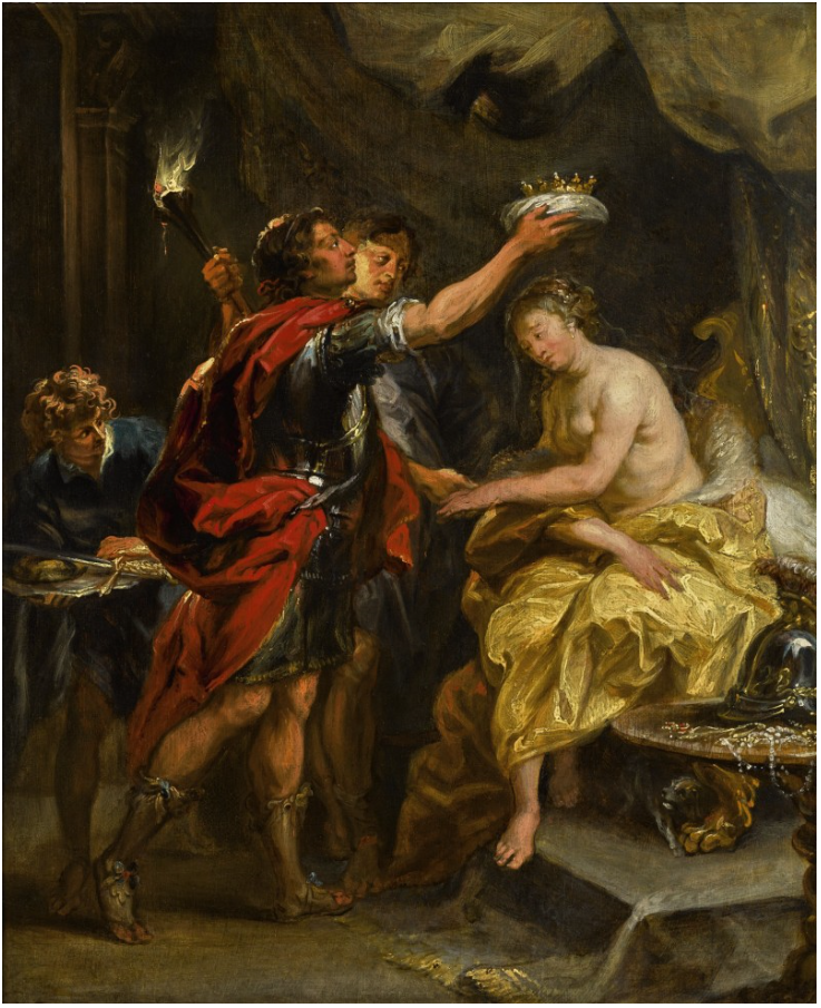 JAN BOECKHORST Münster or Rees circa 1604 - 1668 Antwerp ALEXANDER THE GREAT CROWNING ROXANA oil on canvas, laid on panel 19½ by 16 in.; 49.4 by 40.6 cm.